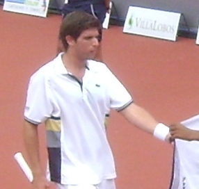 Federico del Bonis, tennis player from Argentina, at 2011 São Paulo Challenger